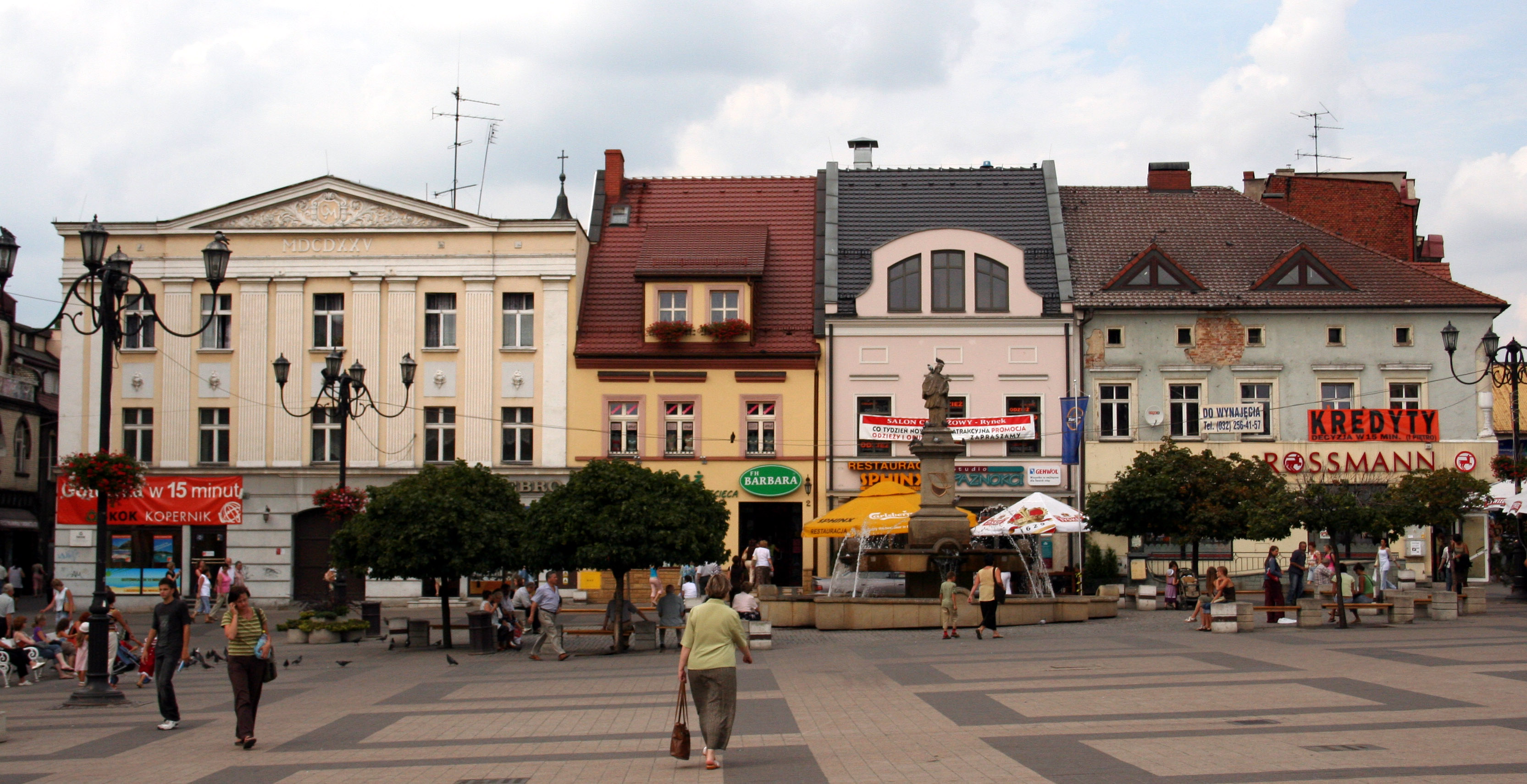 Main Market Square in Rybnik, southern Poland